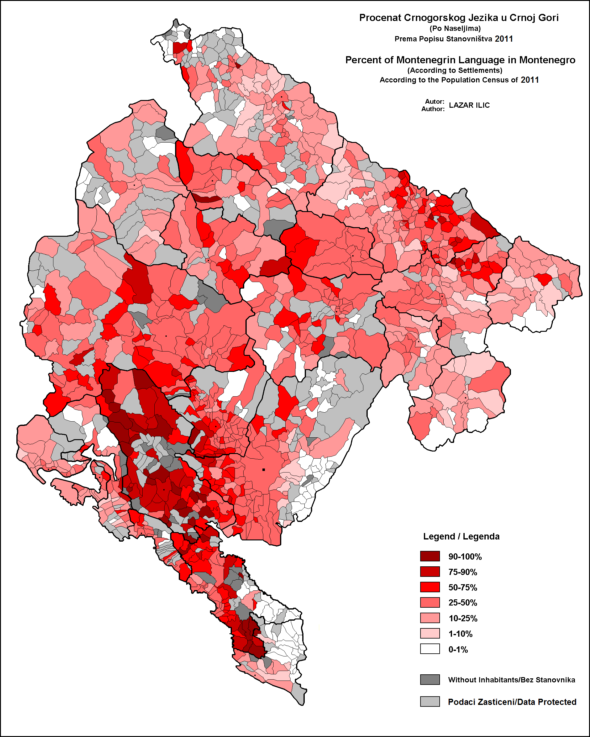 This is a map of settlements in Montenegro, showing the percent of Montenegrin language (mother tongue) according to the 2011 population census.